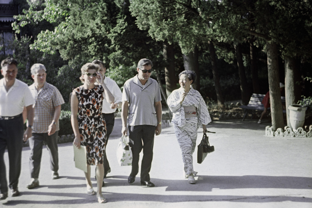 “Valentina Tereshkova, Andriyan Nikolaev and Yoshiko Okada in the Crimea”. Heroes of the Soviet Union, cosmonaut Valentina Nikolaeva-Tereshkova, Andriyan Nikolaev and Japanese director Yoshiko Okada in Gurzuf.